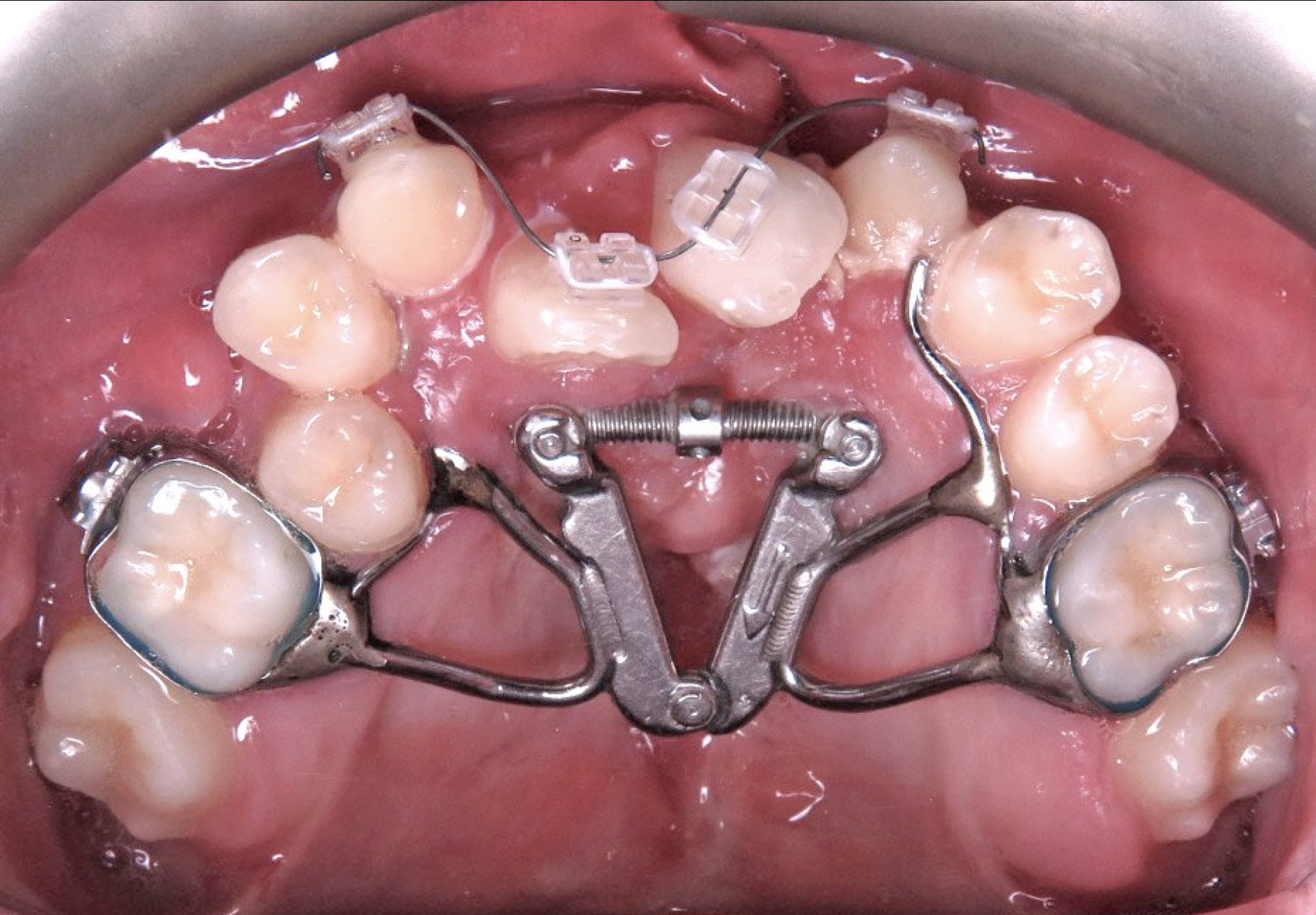 Fan palatal expander in a child with cleft palate prior to alveolar cleft grafting